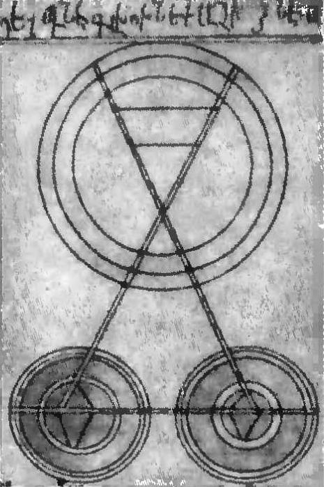 Amirdovlat Amasiaci, Fig. 2